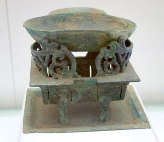 A bronze wine-heating stove from the Chinese Western Han Dynasty (202 BC – 9 AD).